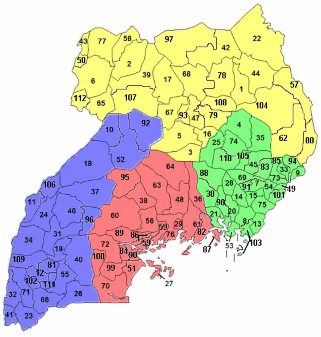 Districs & regions Uganda 07.2010